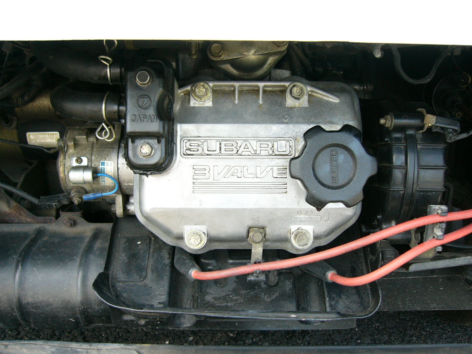 EK23 engine(with 3valve head) is mounted on a 4th generation Subaru Sambar truck.